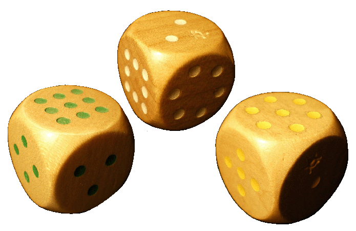 Miwins dice IX, X, XI